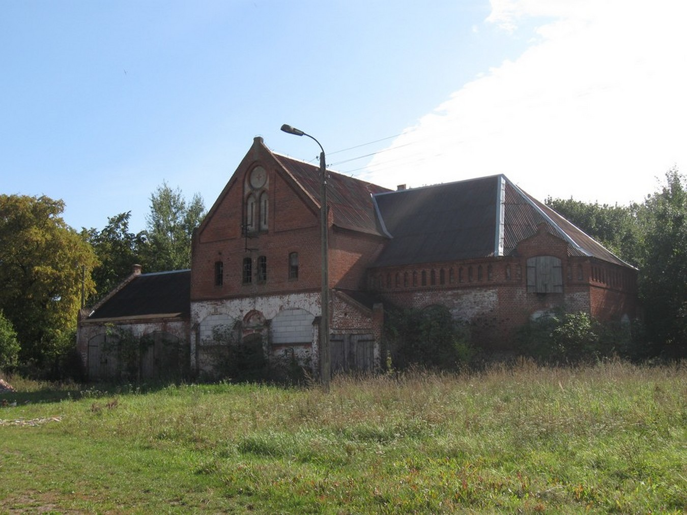 Stable and carriage in Rusocin.